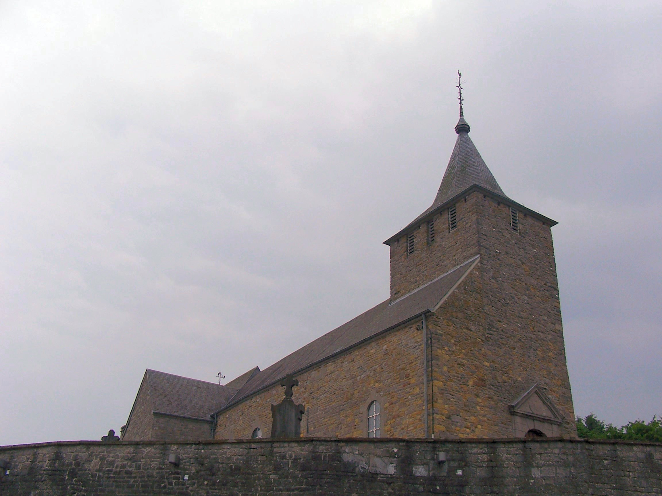 The church at Hody.